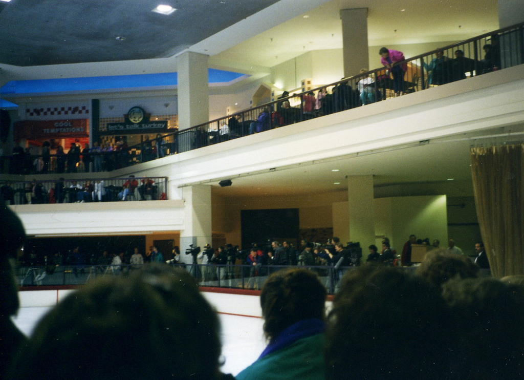 Tonya Harding practices for the 1994 Olympics. Location of picture is Clackamas Town Center in the Portland, Oregon, metropolitan area. (The ice skating rink at this shopping mall has since closed.)